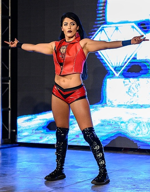 Professional wrestler, Tessa Blanchard on July 5, 2019 at the Bash at the Brewery event.